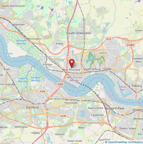 Map showing location of lorry discovery in Grays Thurrock, England